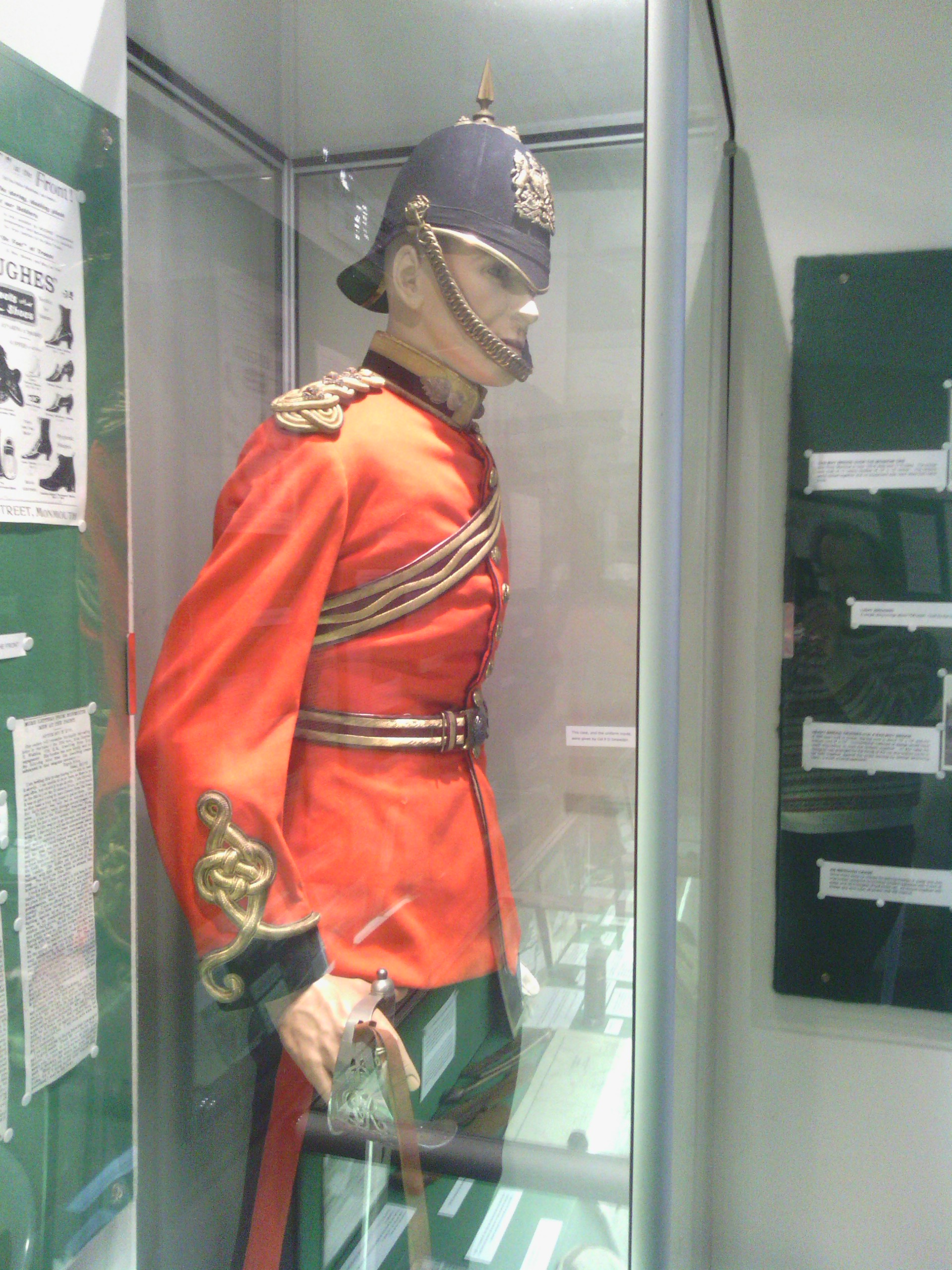 colonels uniform militia from Monmouth Regimental Museum